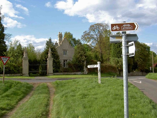 National byway junction Exton With the Lodge to the former Exton Hall in the background.